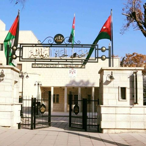 the facade of the museum of parliamentary life